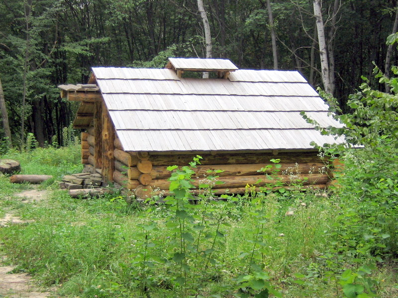 A mountain log cabin at the Museum of Folk Architecture and Ethnography, Pyrohiv near Kyiv, Ukraine.